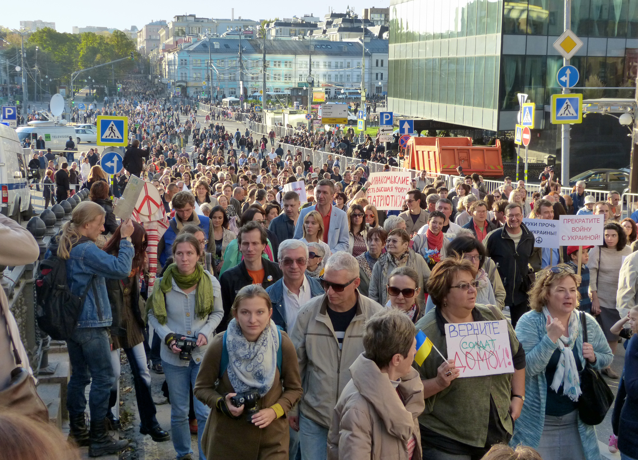 All-Russian peace march - the march against the invasion of the Putin regime's army in Ukraine. Moscow, Boulevard Ring, September 21, 2014. At the picture: Petrovsky Boulevard, Trubnaya area and Rozhdestvensky Boulevard.